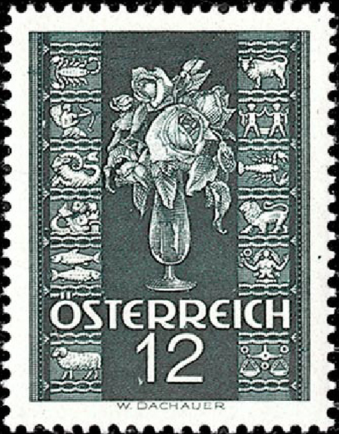 Postage stamp of Austria, Christmas Greetings issue 1937 roses, 12 groschen. Last issue before Anschluss.